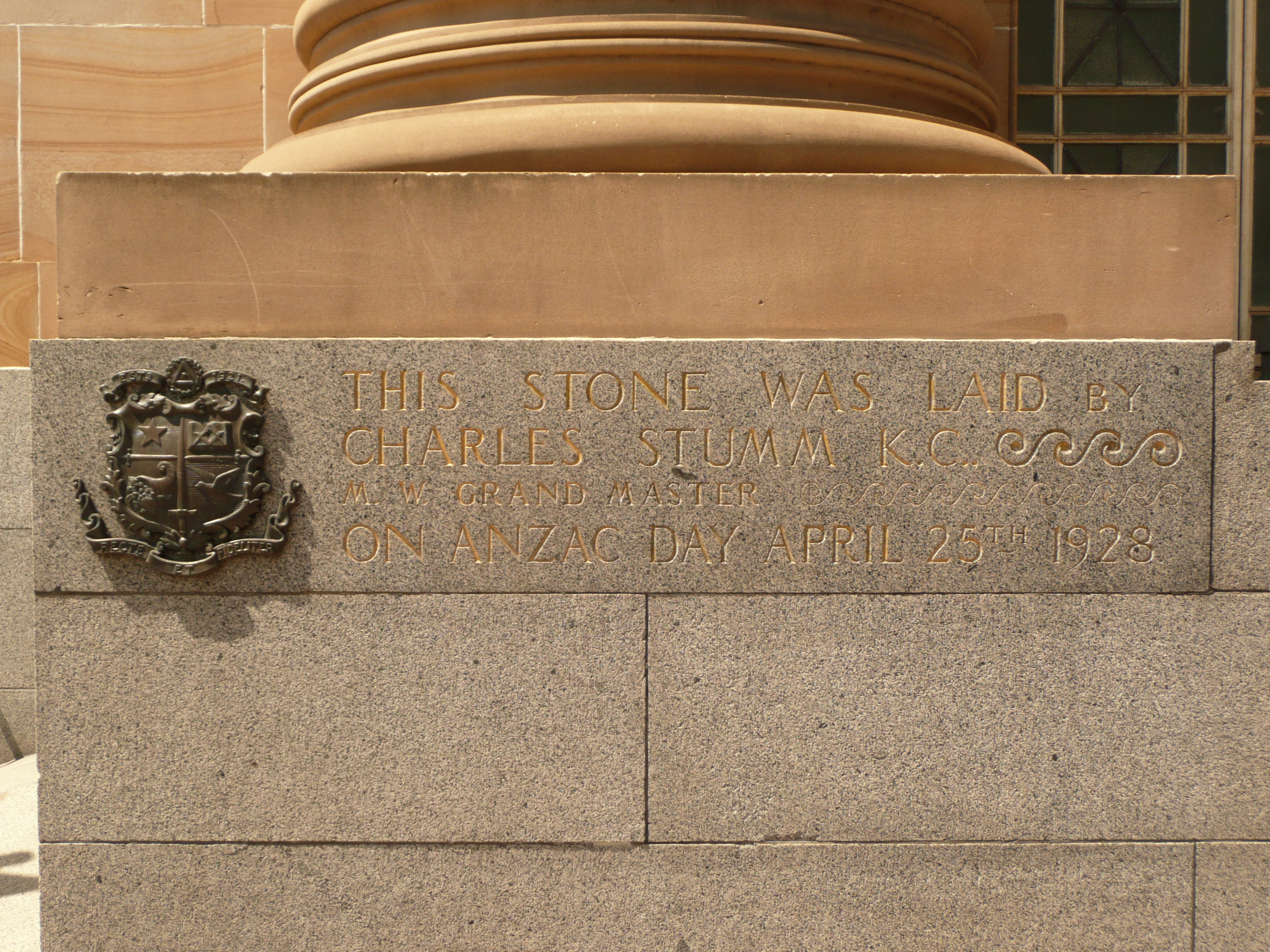 Foundation Stone Masonic Memorial Temple, Brisbane